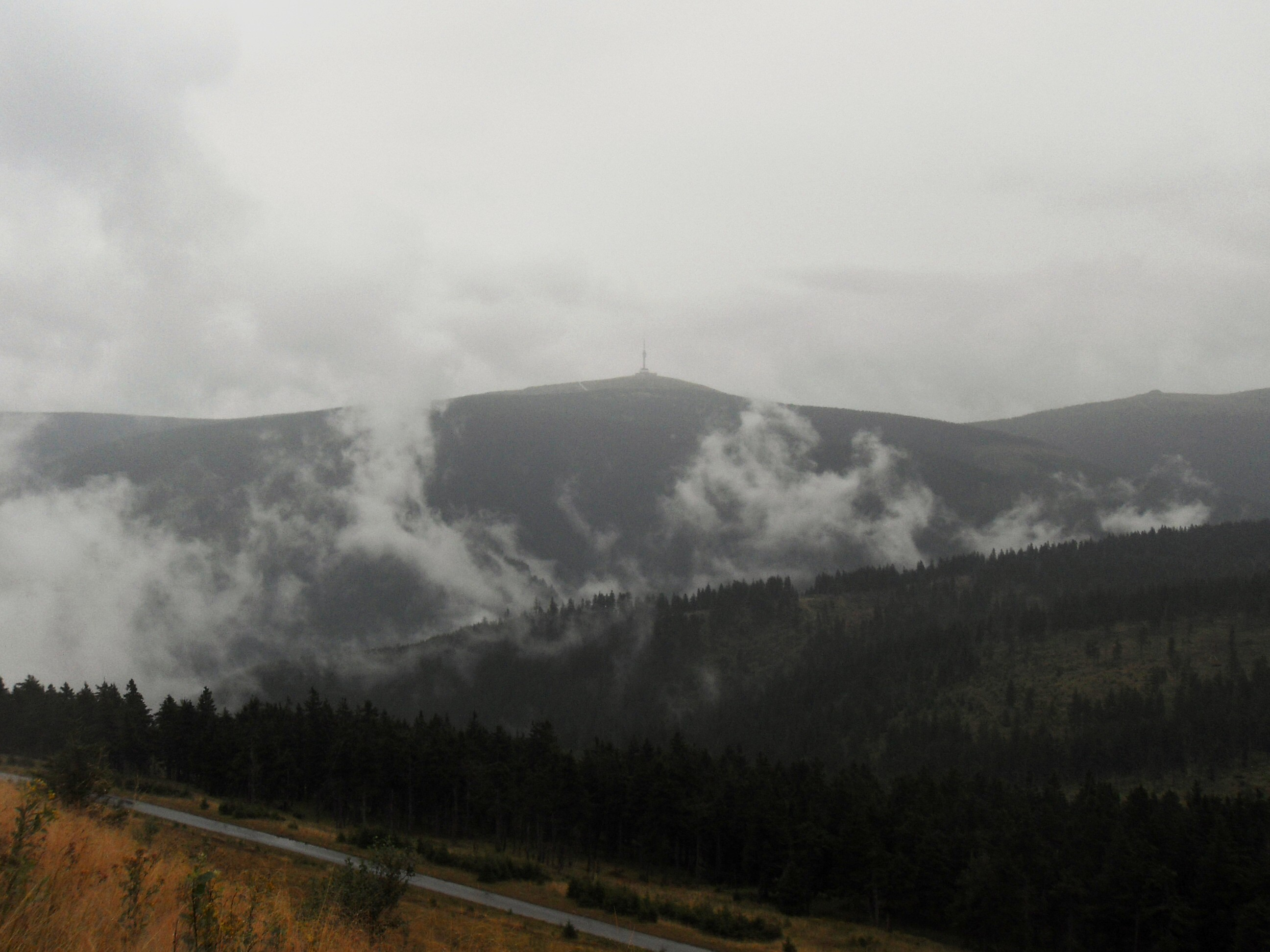 Praděd (1491 m) from upper reservoir of Dlouhé stráně Hydro Power Plant, Rejhotice, Loučná nad Desnou, Šumperk district, Czech Republic